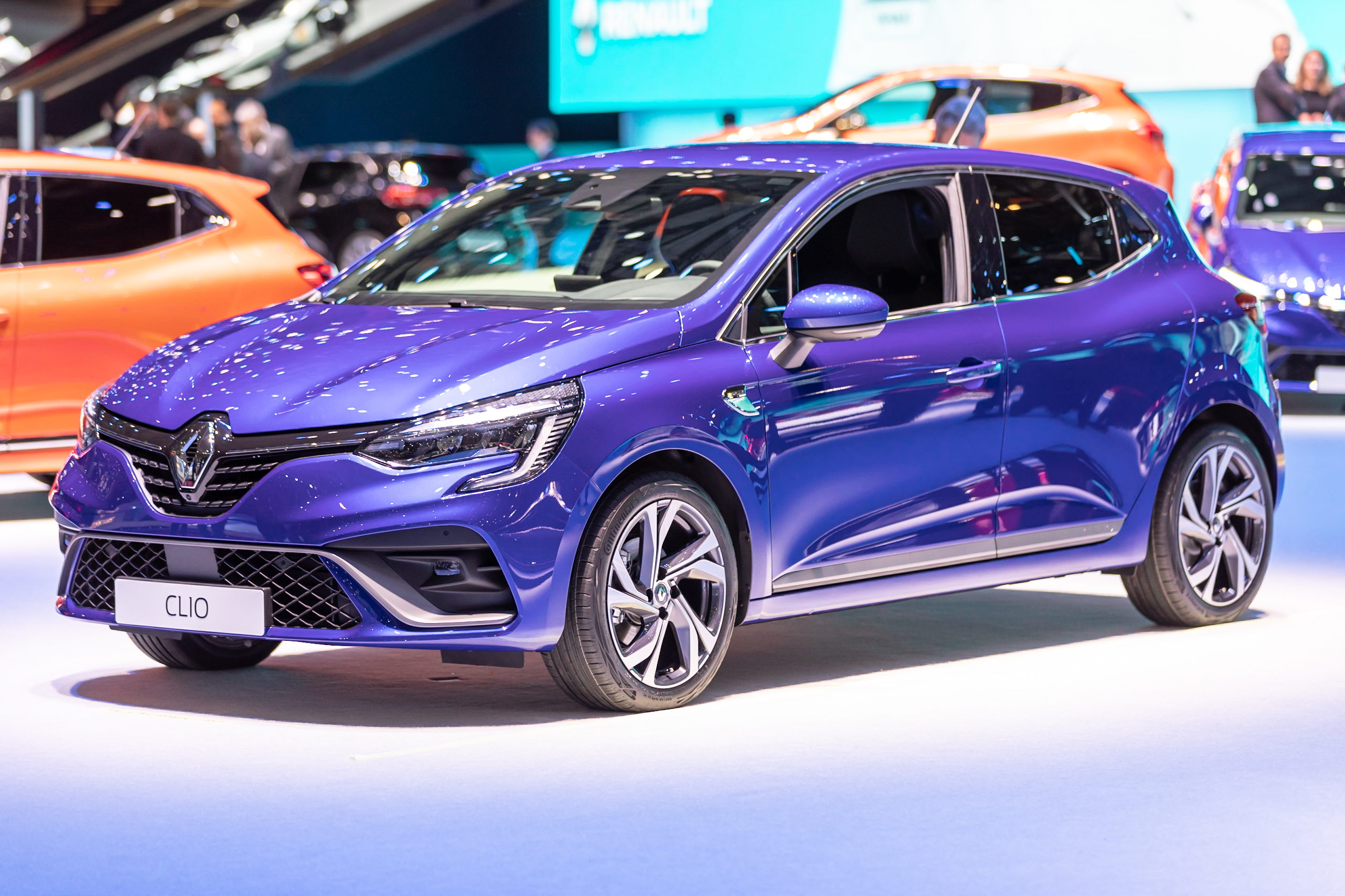 Geneva International Motor Show 2019, Le Grand-Saconnex